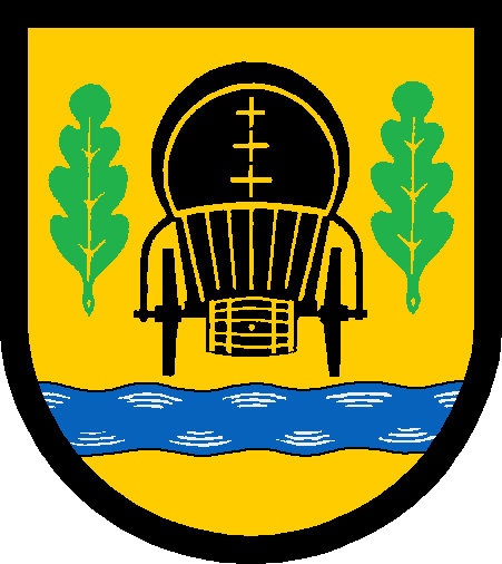 Coat of arms of the municipality Witzeeze in Schleswig-Holstein, Germany.